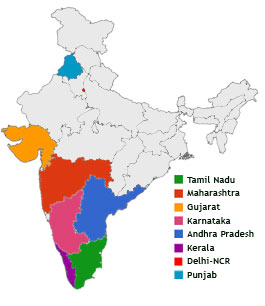 indiamap